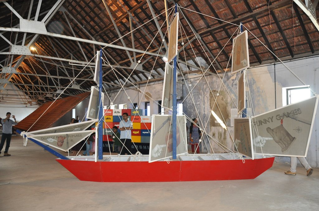 Viewers seeing the ship of tarship by prasad raghavan at Kochi-Muziris binalle 2012